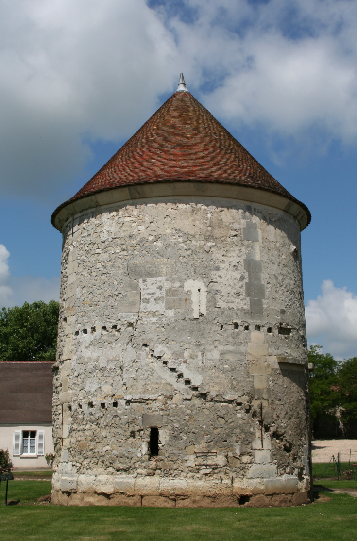 Dovecote inside the Vaulerent farm. XVIth-XVIIth cent. Villeron, Val-d'Oise, France